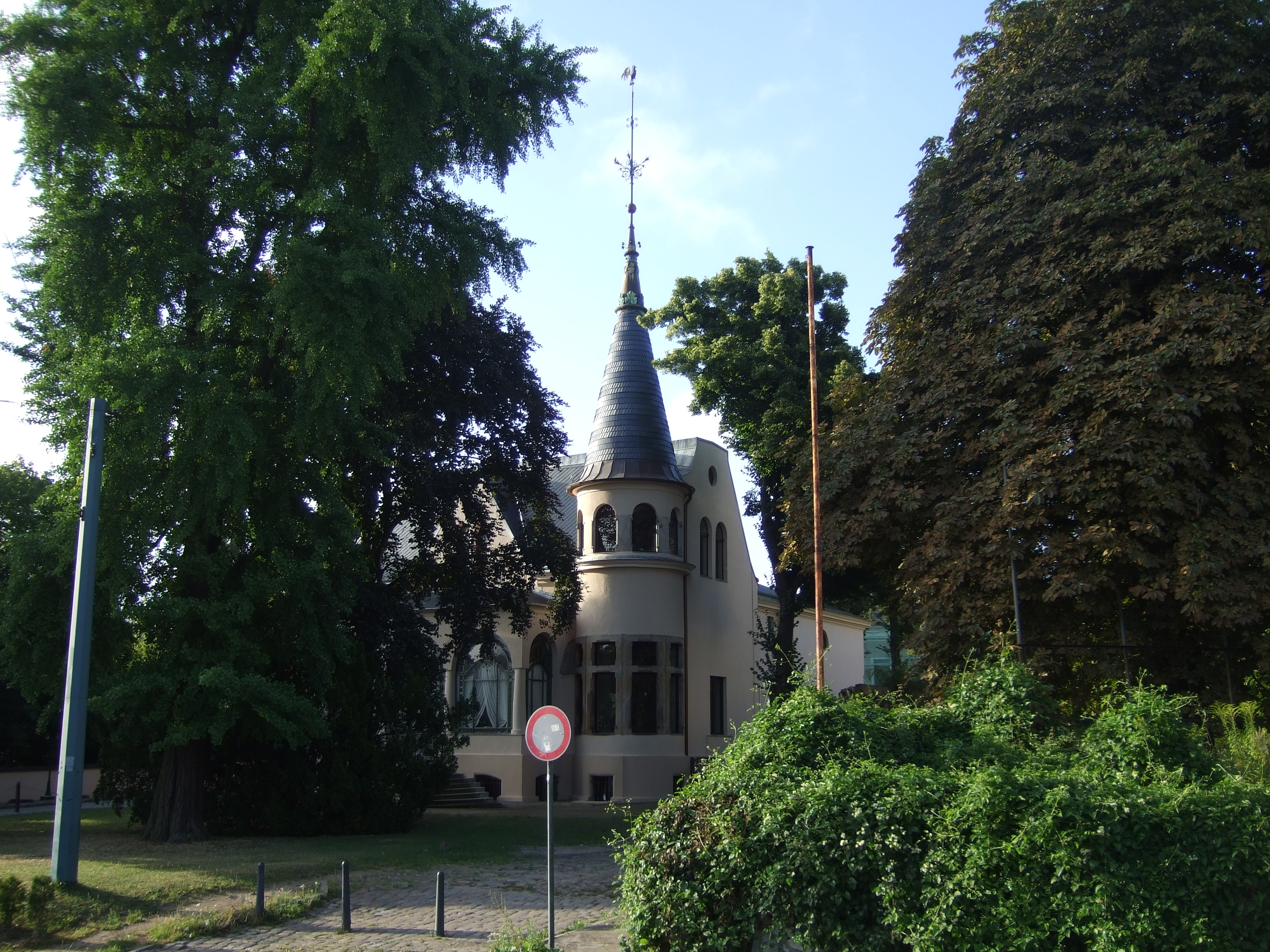 Cultural heritage monument Villa Trowitzsch, Frankfurt (Oder), Germany.